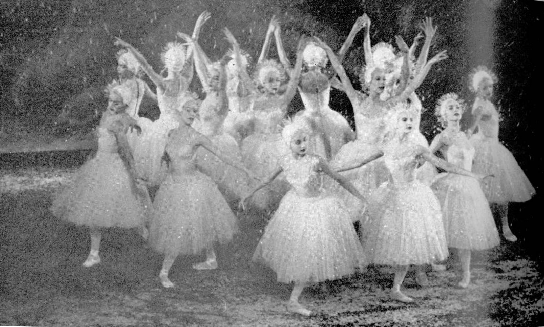 Snowflake Waltz in the White Forest (The Nutcracker Act I, Scene III) performed by The New York City Ballet in 1954.